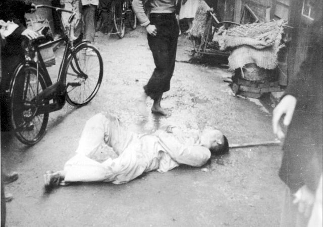 二二八事件中受傷倒地者。